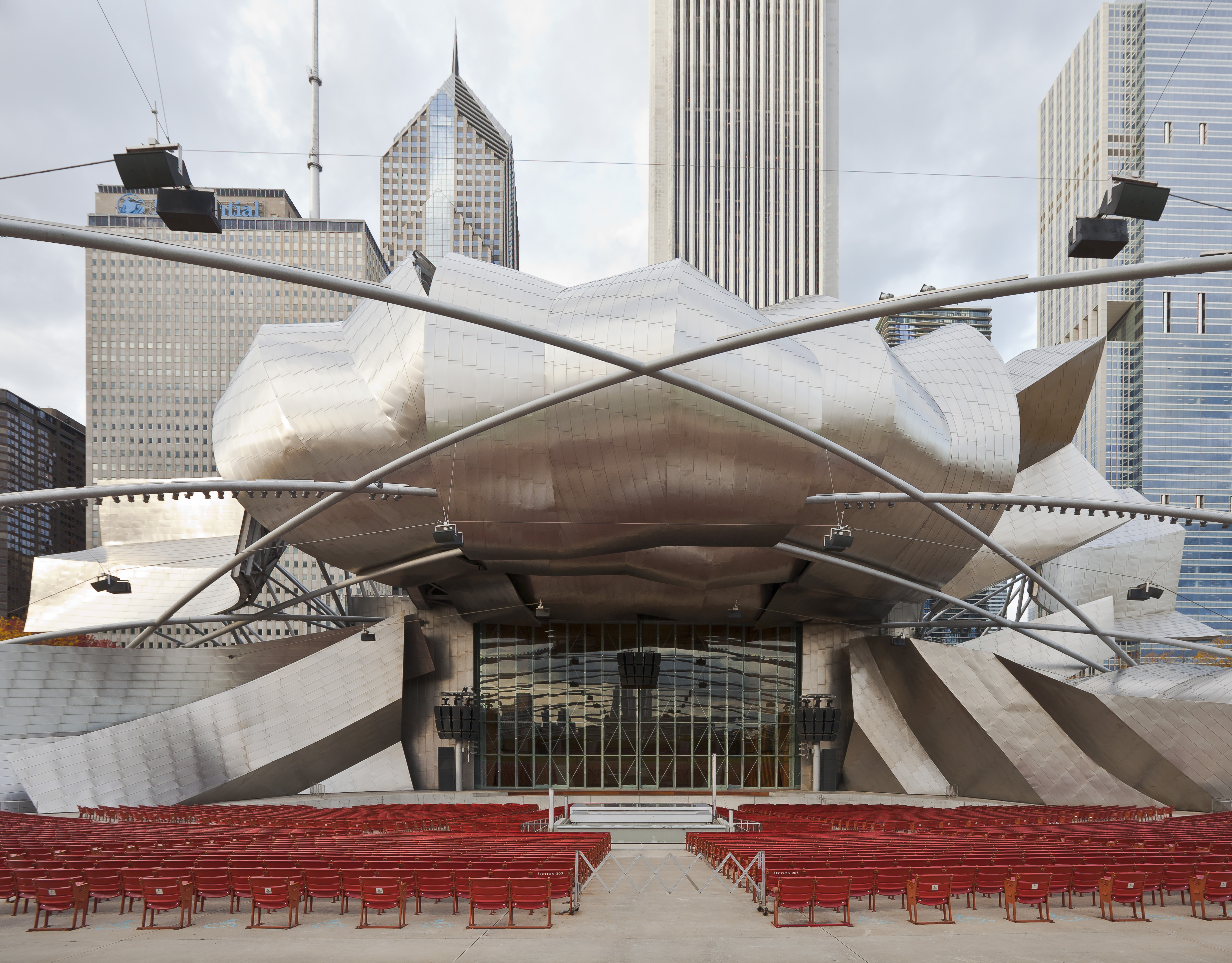 Jay Pritzker Pavilion, Chicago, Illinois, USA